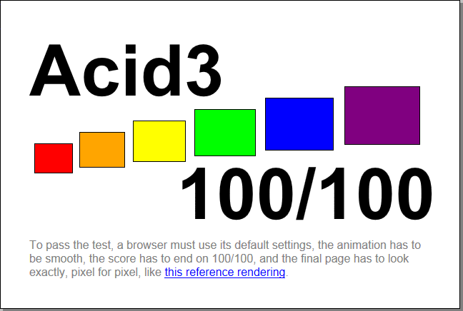 Screenshot of Internet Explorer 9 displaying the Acid3 test of September 2011